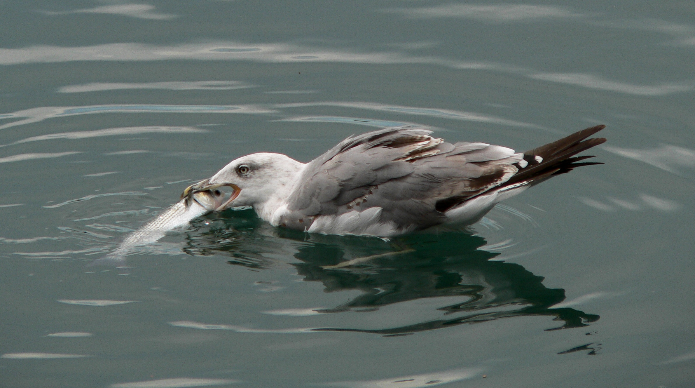 Yellow-legged Gull eating a fish, in Rijeka